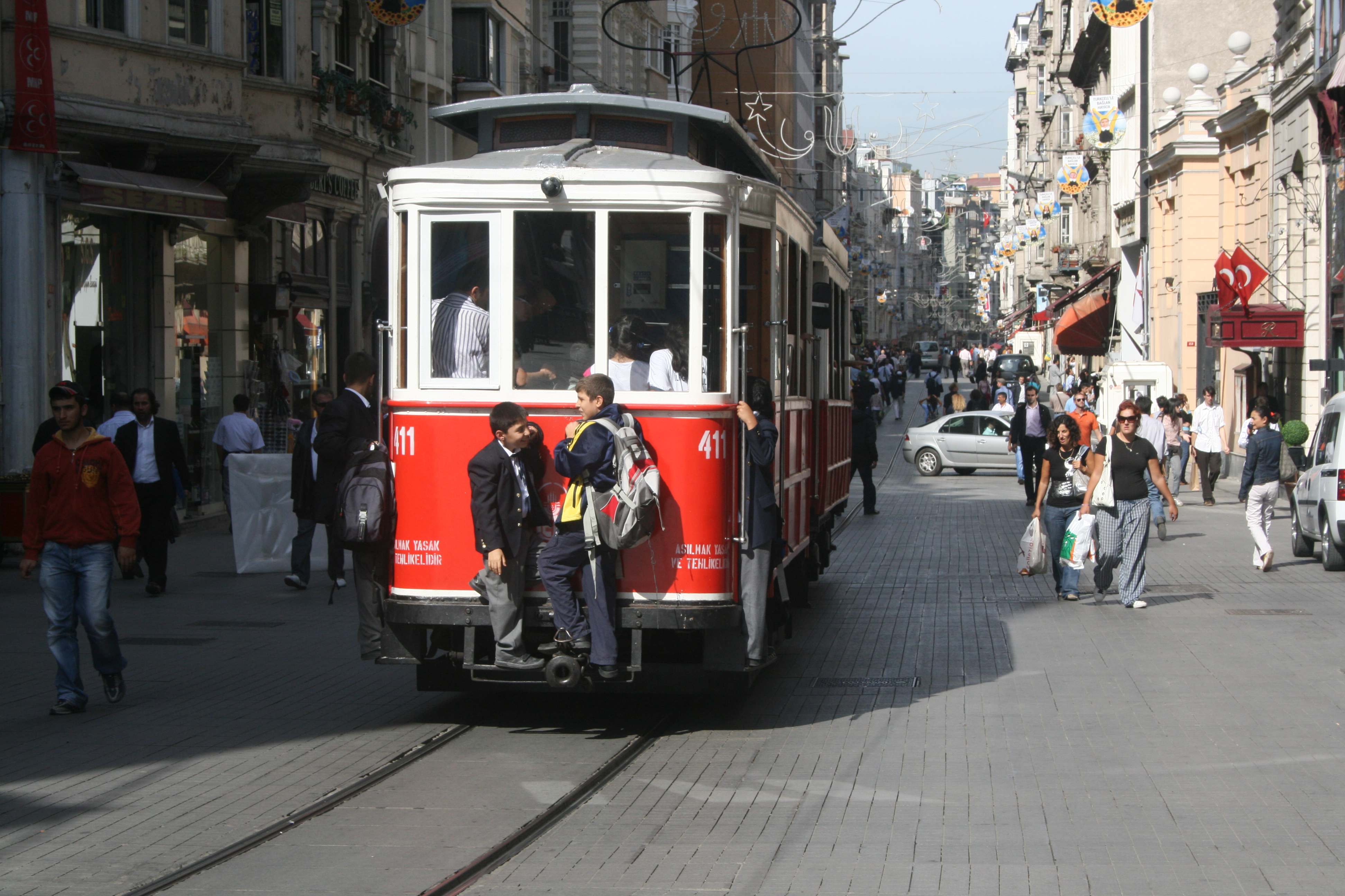 Riding the nostalgic tram without paying a fare in Istanbul, Istiklal Caddesi